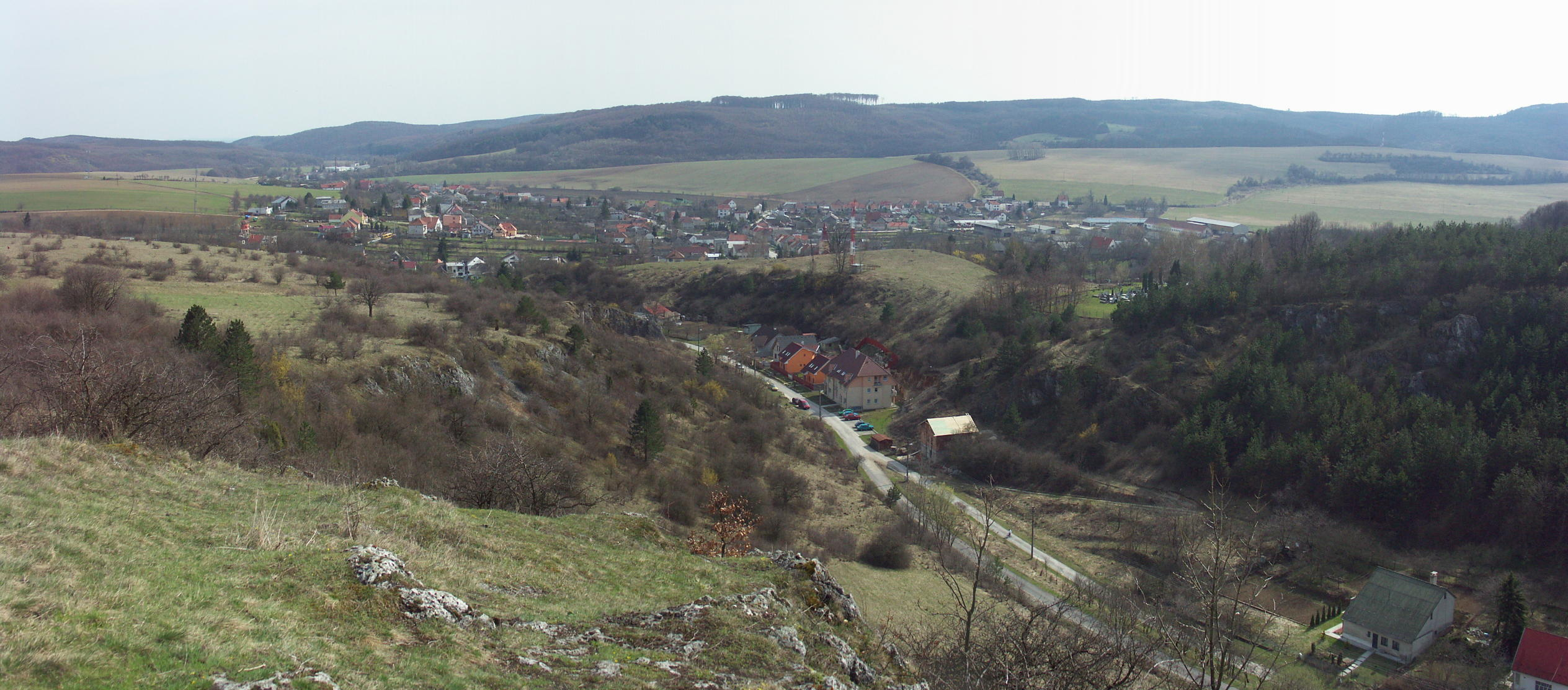 Description: Ruins of the Slovakian castle "Dobrá voda" in region of Trnava Author: Radovan Bahna Captured on: 15th April 2006 in Slovakia, Dobrá Voda